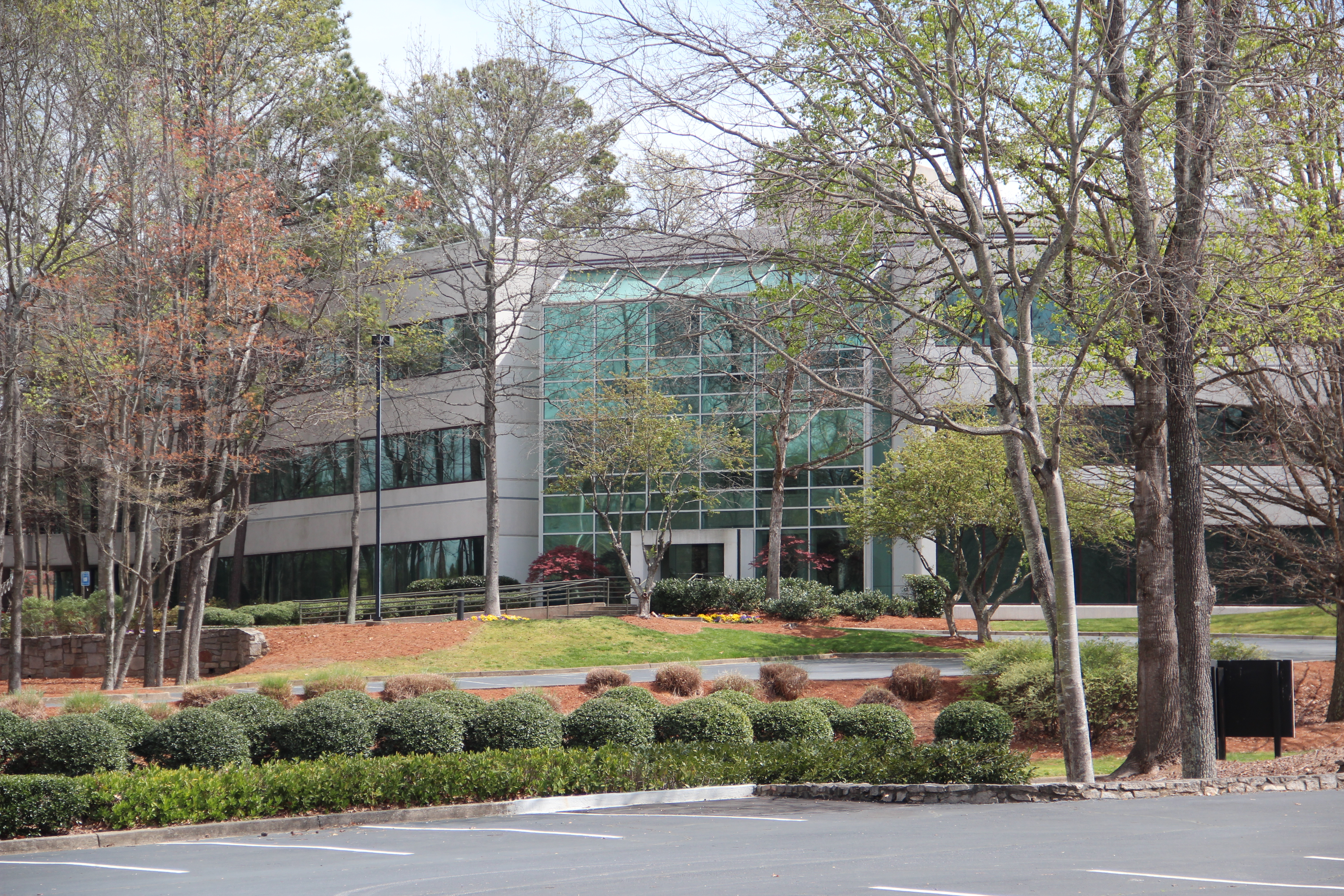 5550 Triangle Parkway, Peachtree Corners, Georgia